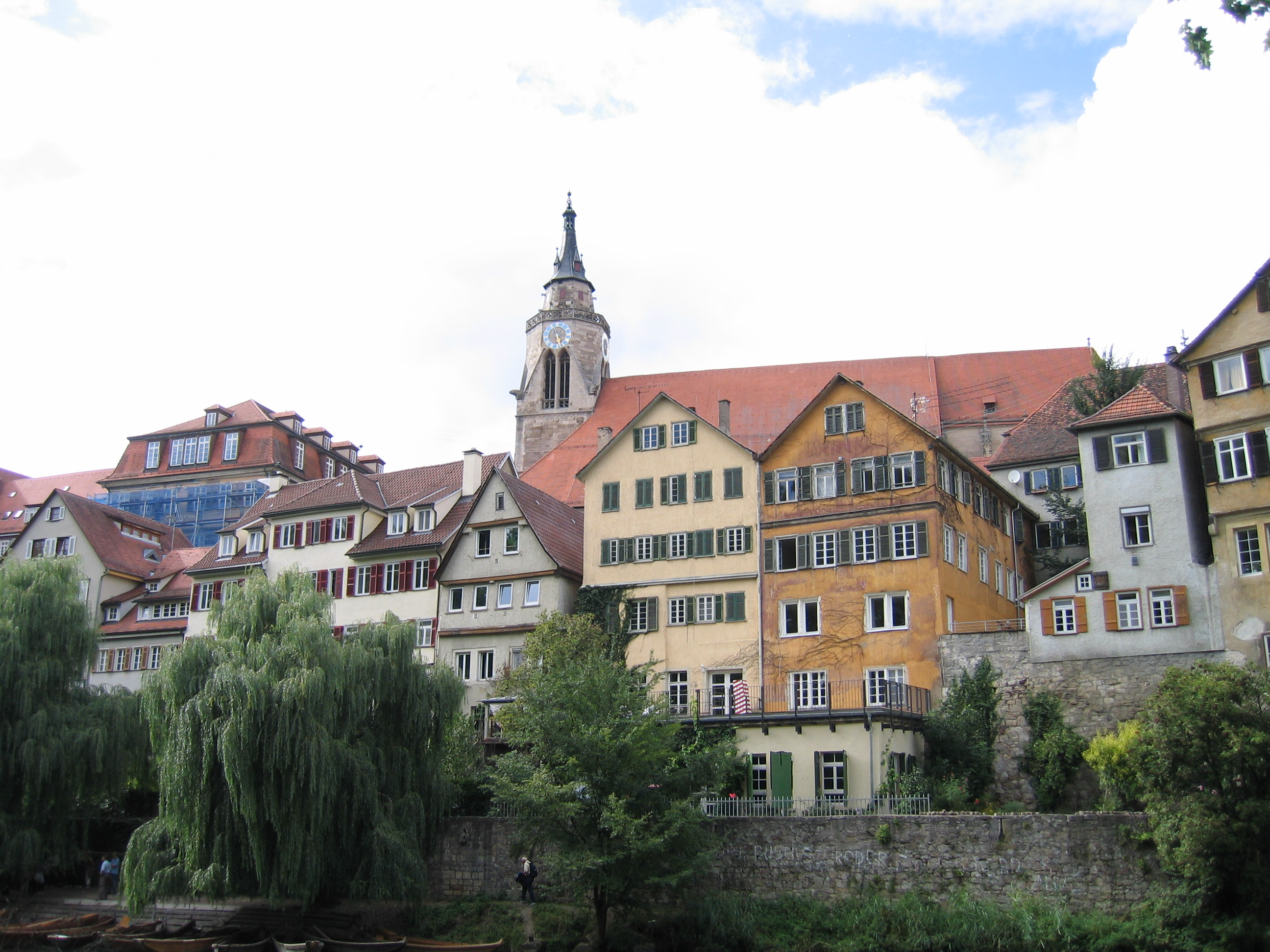 Stiftskirche. Tübingen.